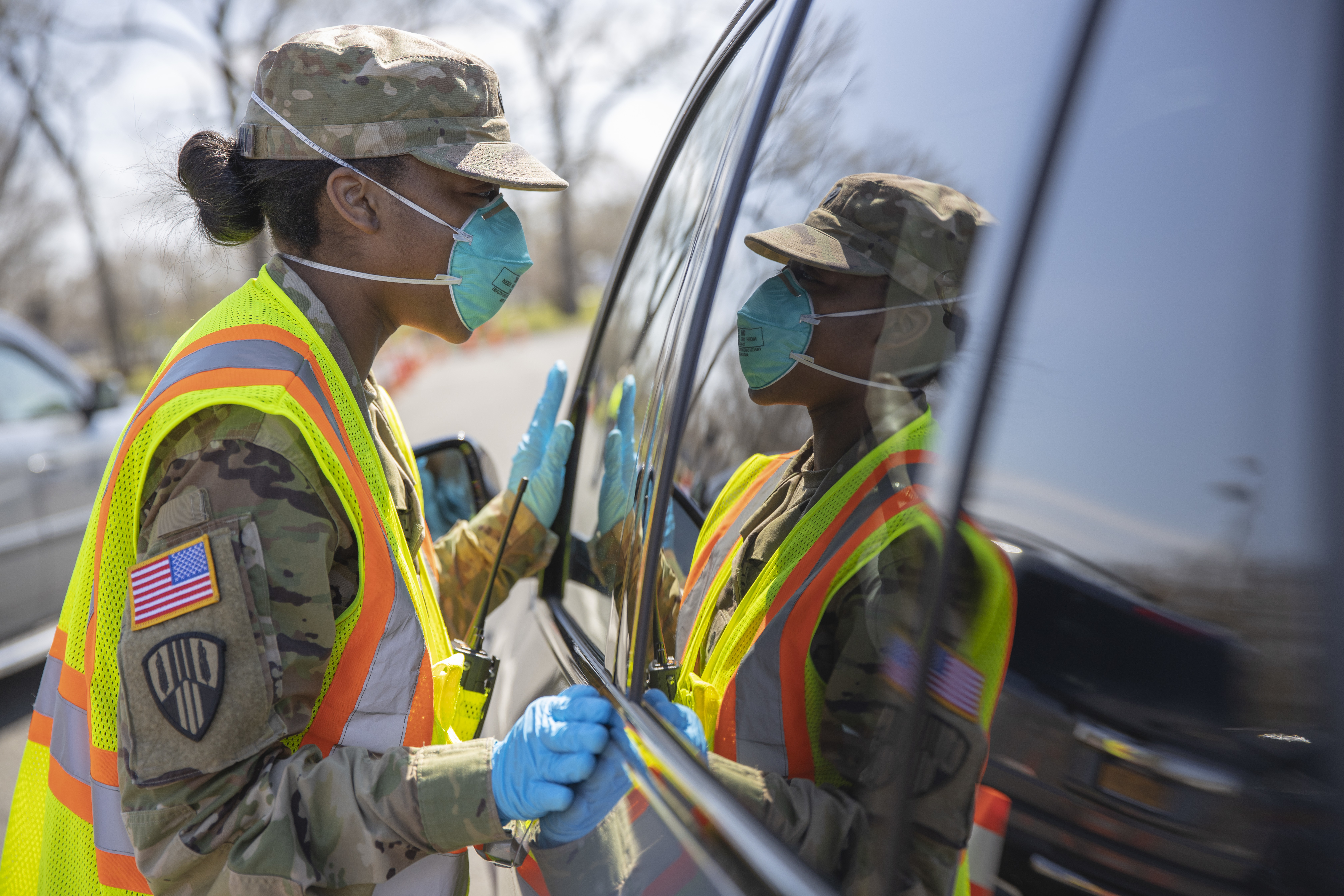 New York Army National Guard Spc. Gilliam-Gray Shawnese assigned to the 101st Expeditionary Signal Battalion, 369th Sustainment Brigade, New York Army National Guard gives instructions to people in their vehicles at the COVID-19 Mobile Testing Center in Glenn Island Park, New Rochelle, Apr. 8, 2020. The New York National Guard continues support at seven drive-thru testing sites. Soldiers and Airmen are collecting samples and providing general-purpose support at the testing locations, now exceeding 5,000 tests per day in total. (U.S. Army National Guard photo by Sgt. Jonathan Pietrantoni)